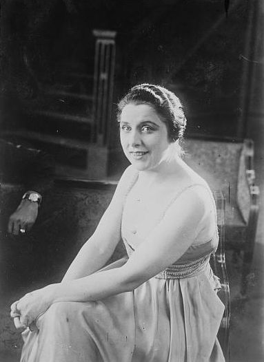 Geraldine Farrar (1882 – 1967), opera singer and film actress